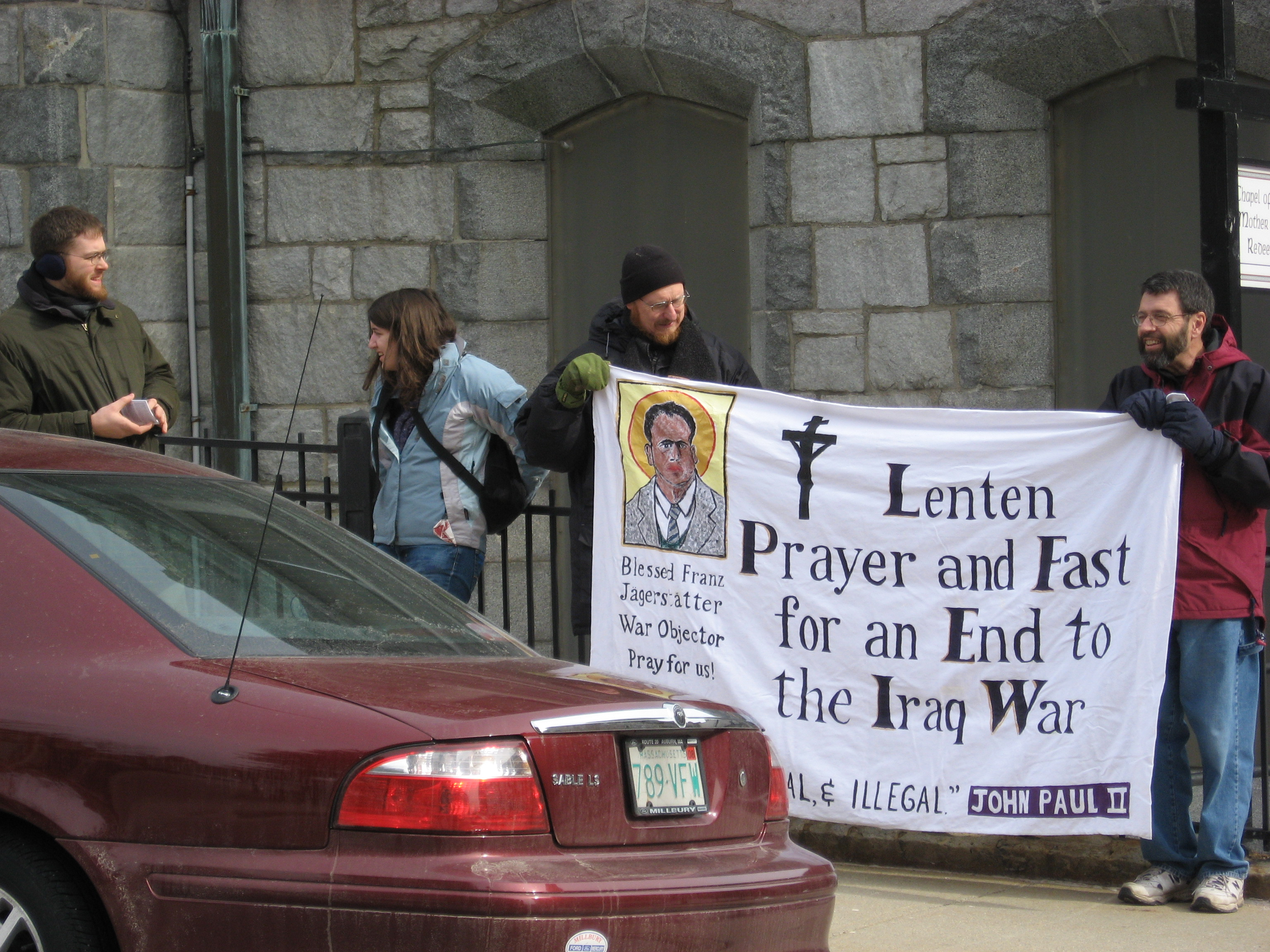 protest against Iraq war